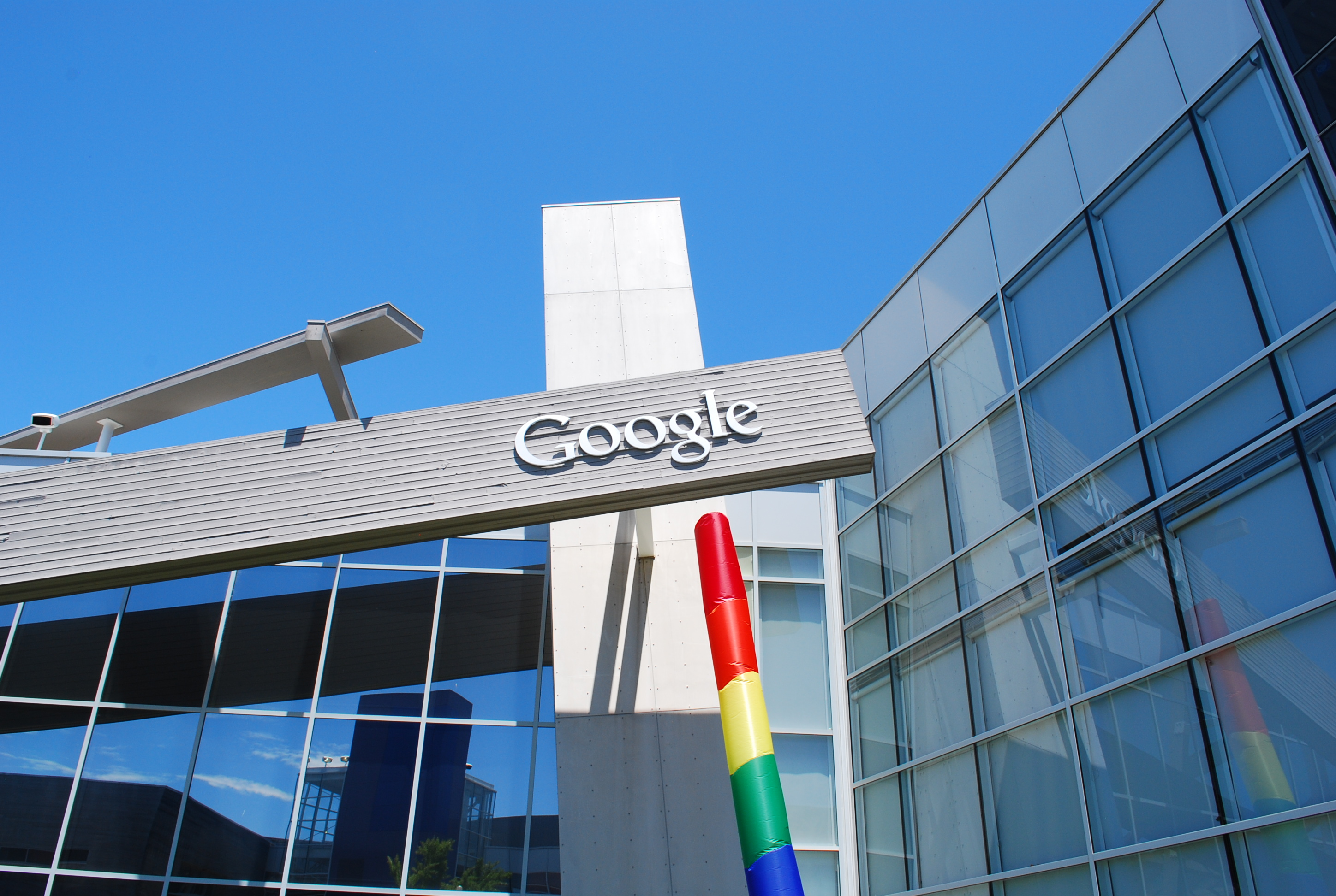 They should beef up the security here... I was walking all over the place without any staff escort or identification badge. So awesome.